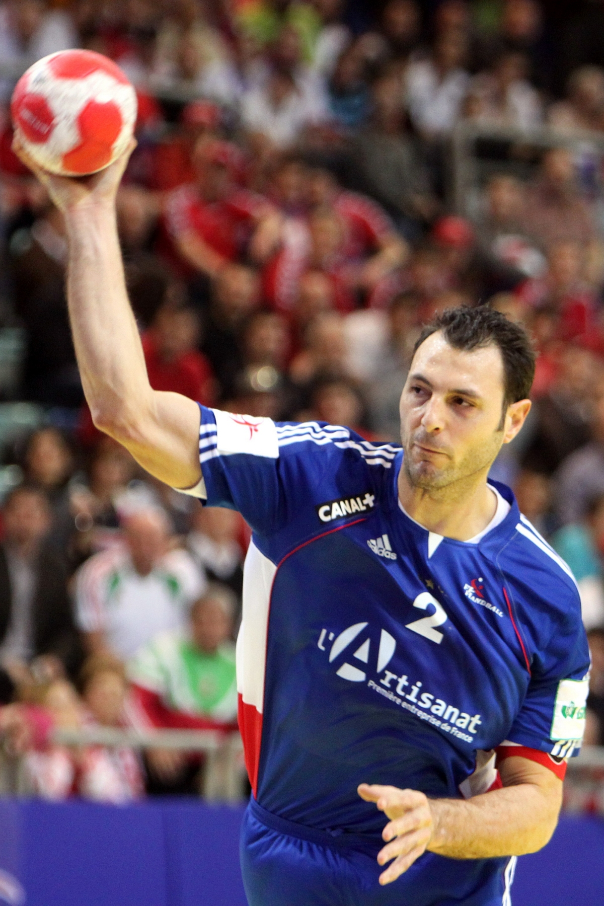 Jérôme Fernandez (BM Ciudad Real), France national handball team